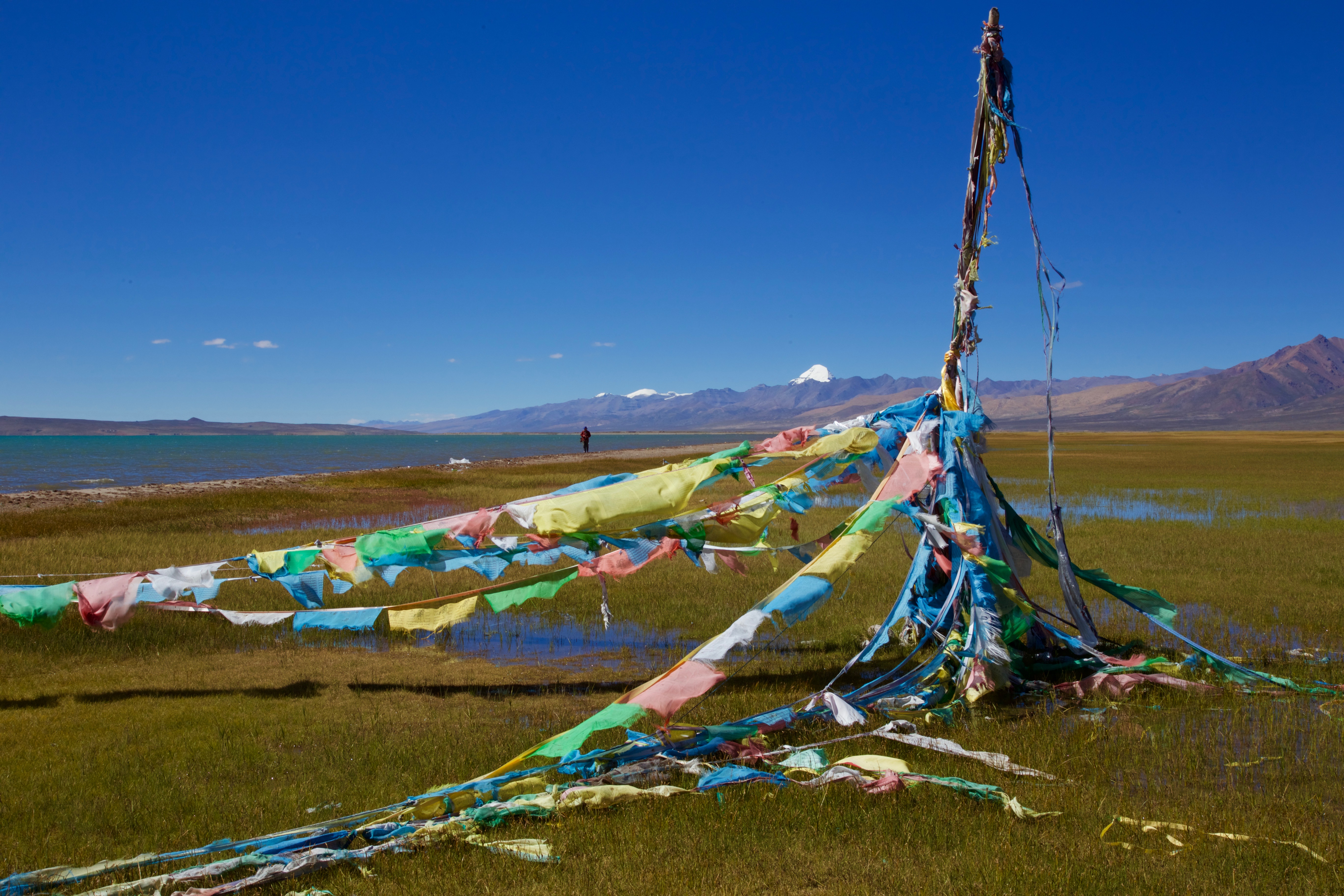 Prayer flags in front of lake manasarovar and Mount Kailash